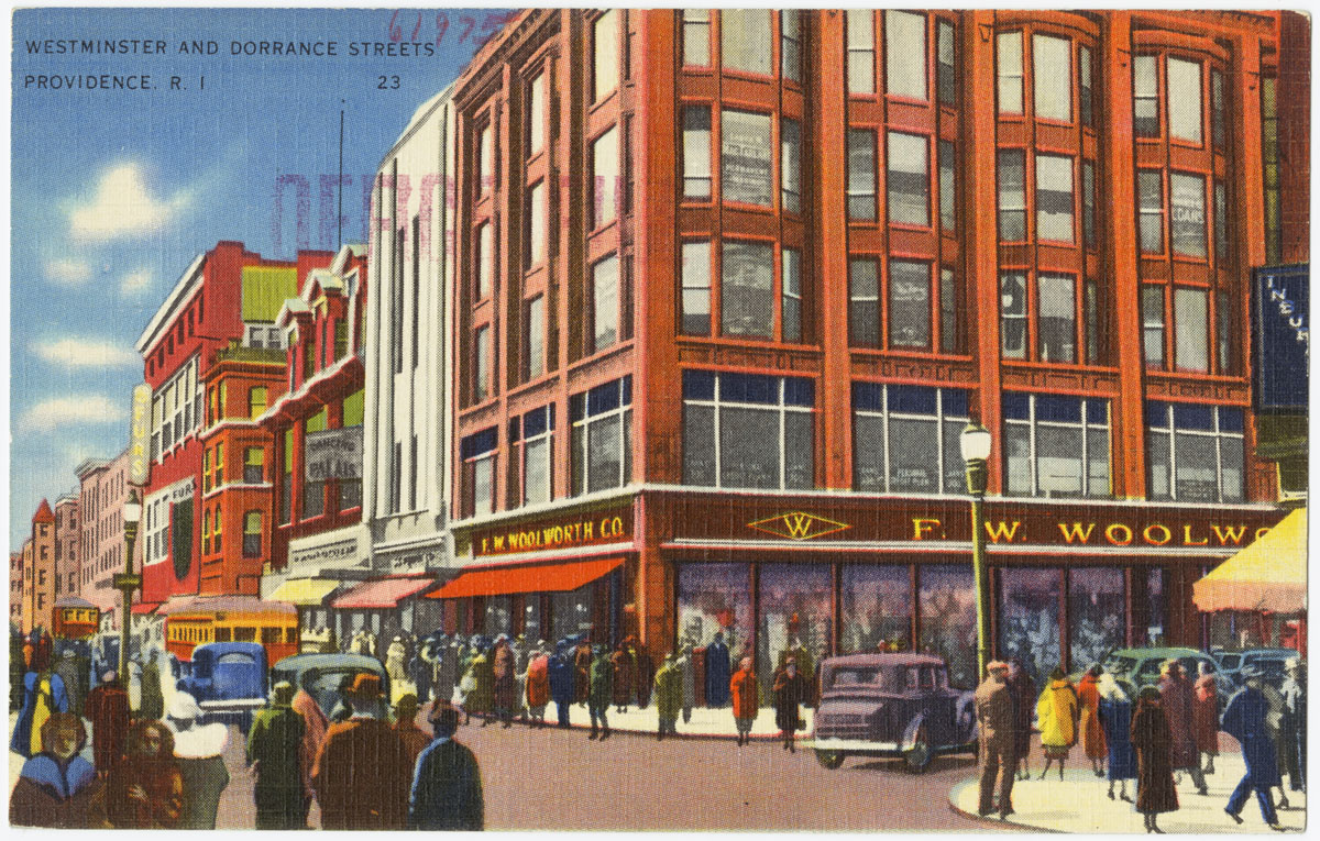 File name: 06_10_002020 Title: Westminster and Dorrance streets, Providence, R.I. Created/Published: Published by The Rhode Island News Company Tichnor Quality Views Date issued: 1930 - 1945 (approximate) Physical description: 1 print (postcard) : linen texture, color ; 3 1/2 x 5 1/2 in. Genre: Postcards Subjects: Cities & towns Notes: Collection: The Tichnor Brothers Collection Location: Boston Public Library, Print Department Rights: No known restrictions